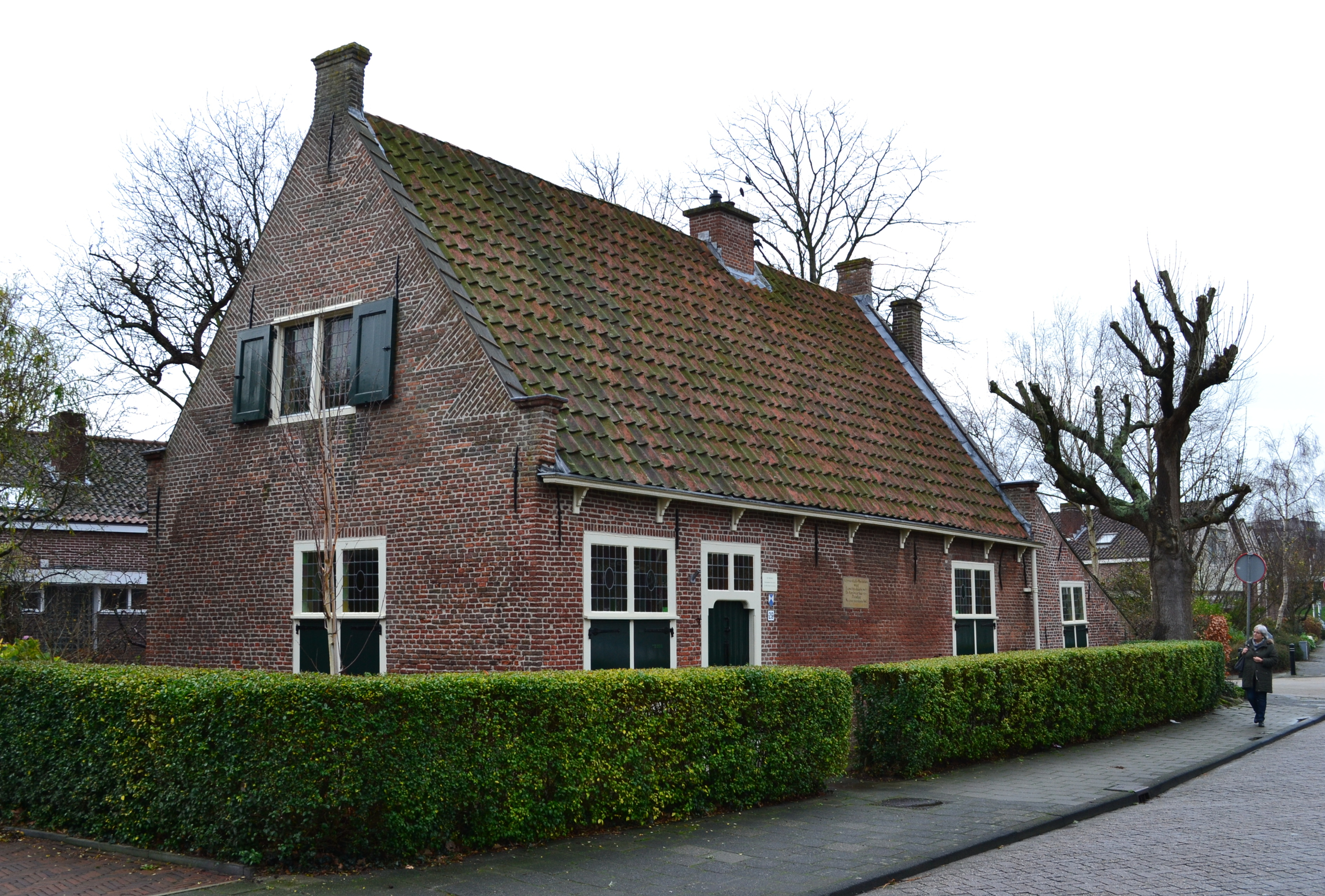 A view of the Spinozahuis in Rijnsburg, where Baruch Spinoza lived in 1661-1663.